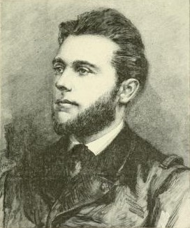 Portrait of capitaine de vaisseau François-Ernest Fournier, French negotiator of the Tientsin Accord (11 May 1884)